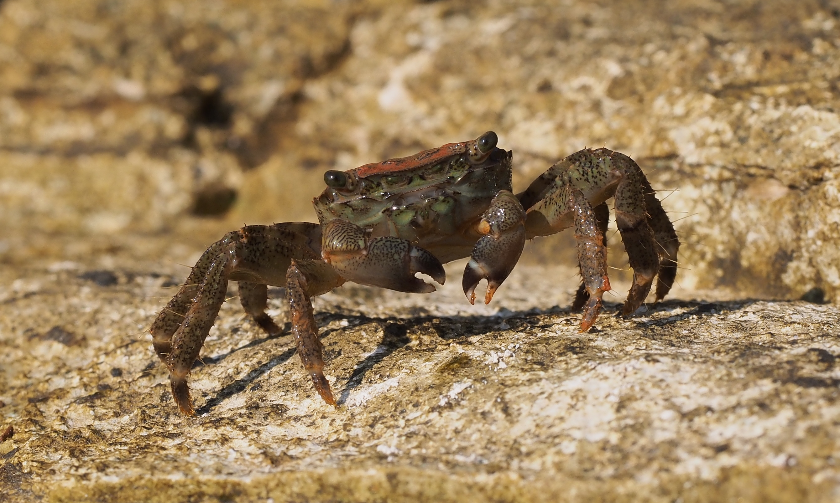 Crab (Pachygrapsus marmoratus) on Adriatic Sea coastline. This photograph was taken with an Olympus E-P5